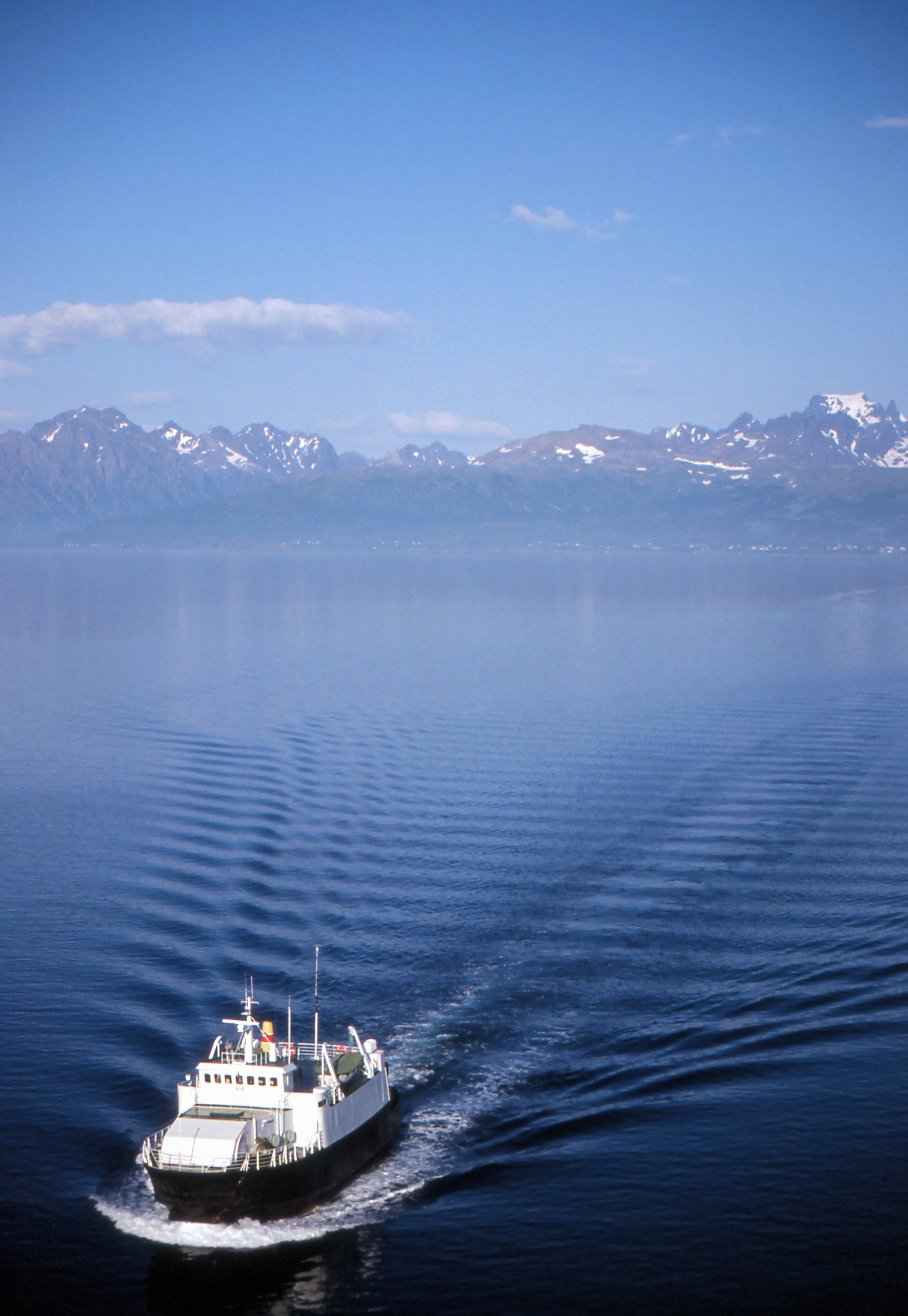 Scan of an old slide.